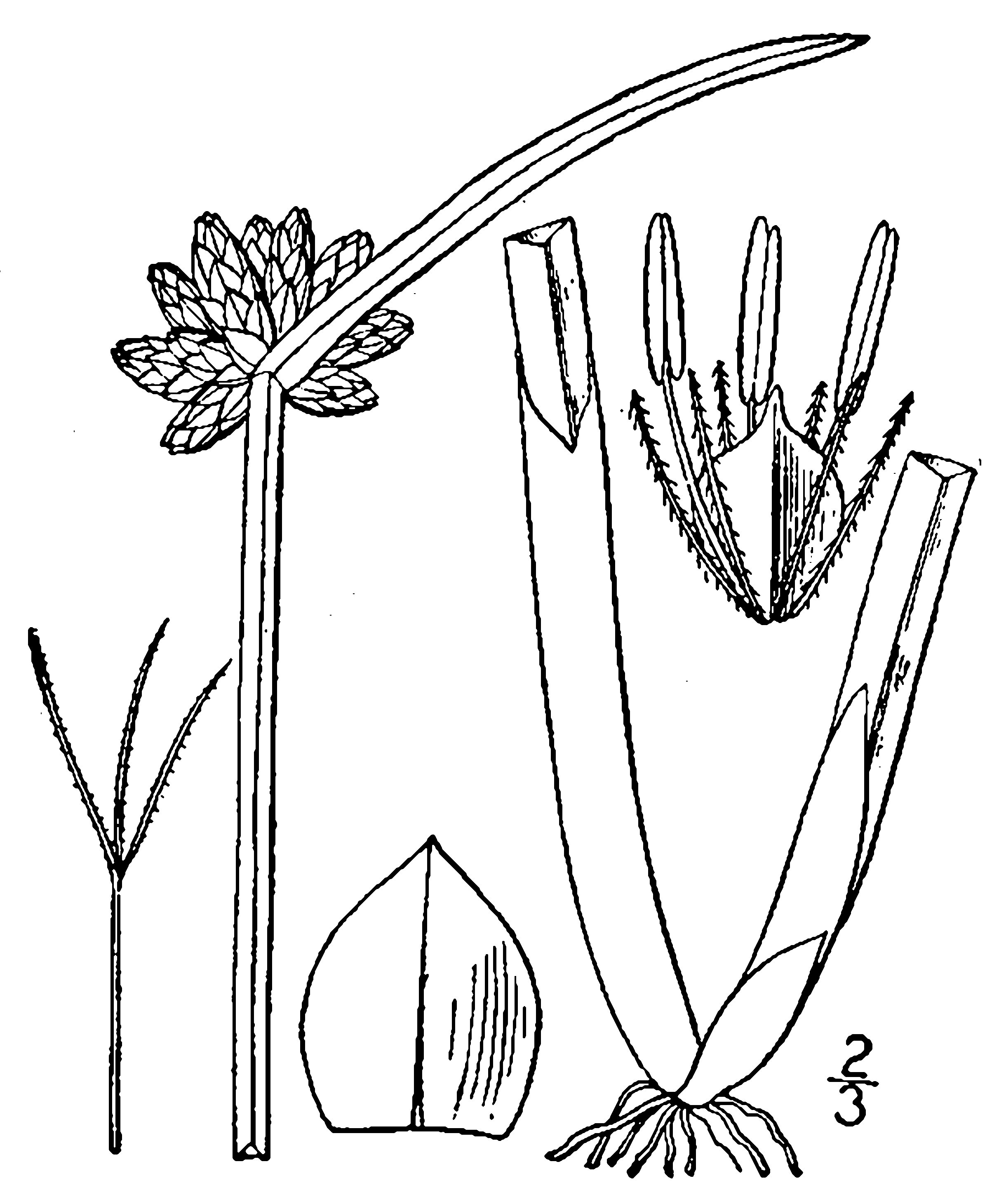 Schoenoplectus mucronatus syn. Scirpus mucronatus from Britton, N.L., and A. Brown. 1913. An illustrated flora of the northern United States, Canada and the British Possessions. Vol. 1: 331. Courtesy of Kentucky Native Plant Society. Scanned by Omnitek Inc. Cropped, un-tilted, and de-smudged.